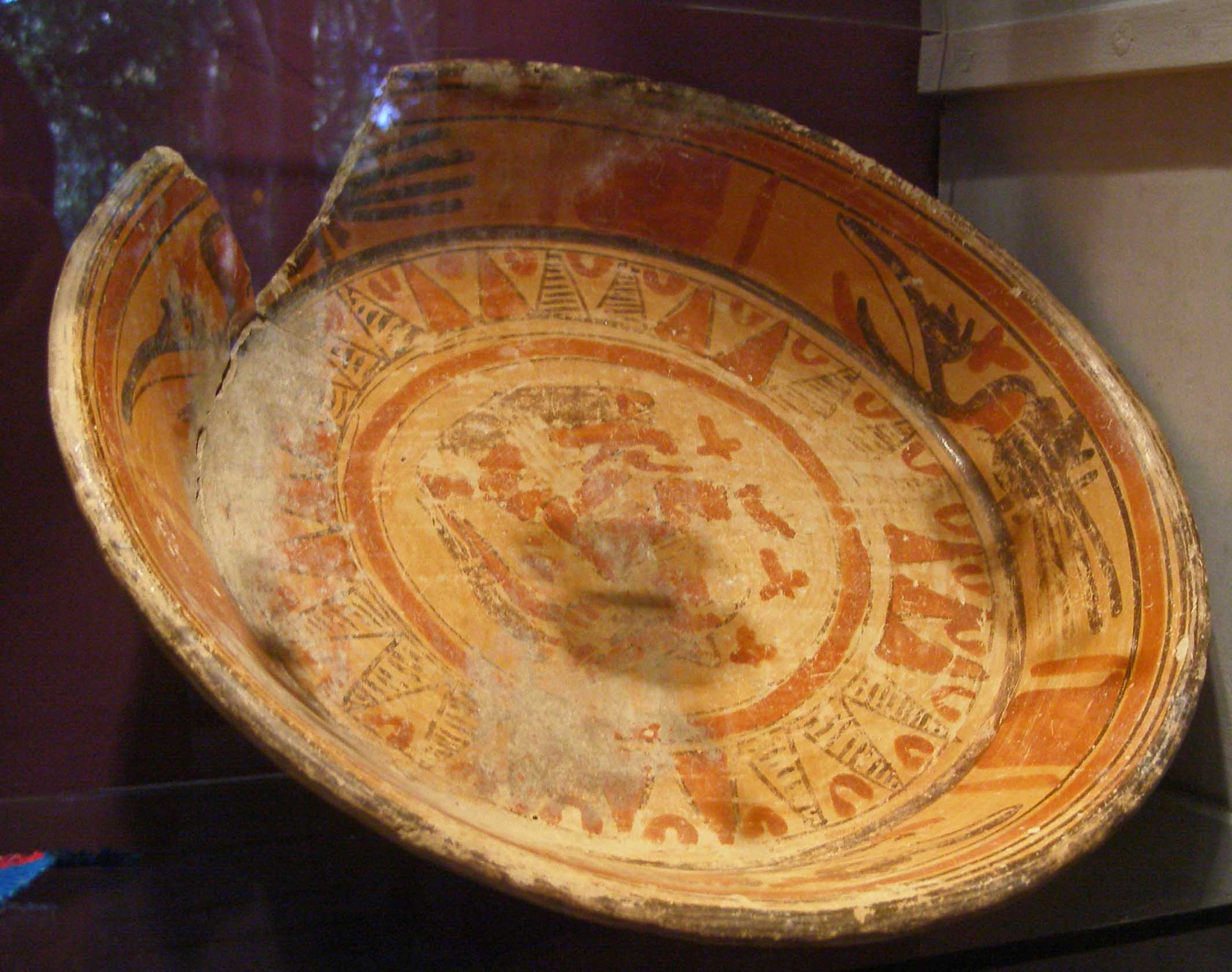 Subject: Classic Mayan bowl, an original specimen located in the Mayan Museum at Chaa Creek. It was found in the Macal River's lower watershed in Belize. Date: January, 2007 Photographer: C. Michael Hogan Permission: emailed to Wikipedia Permissions Department